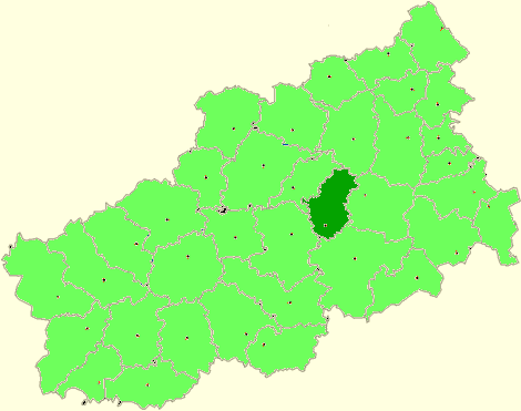 Tver Oblast map by Al Silonov